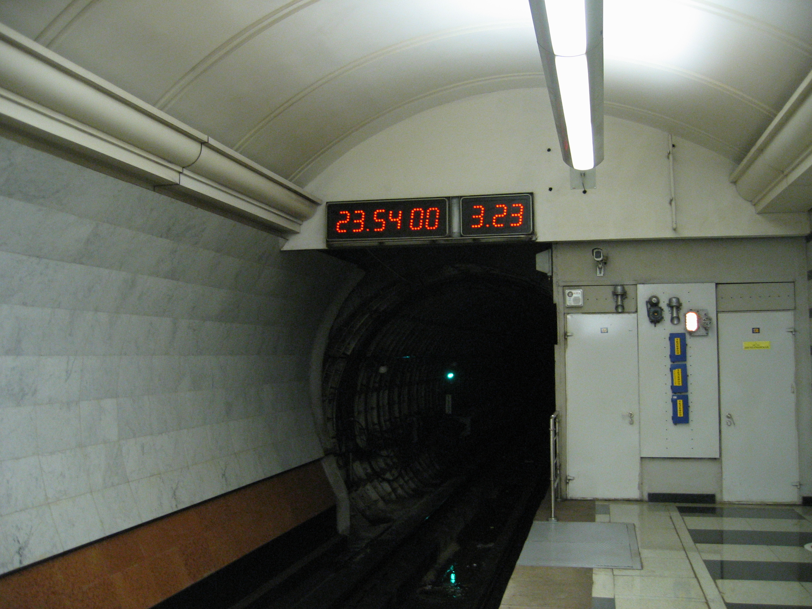 Moscow Metro, clock